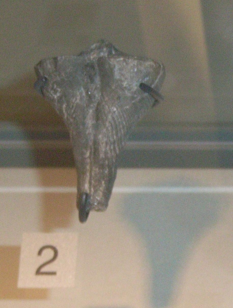 Conocardium konincki (Baily, 1871) Rostroconchia Mississippian, Co. Kildare Ireland